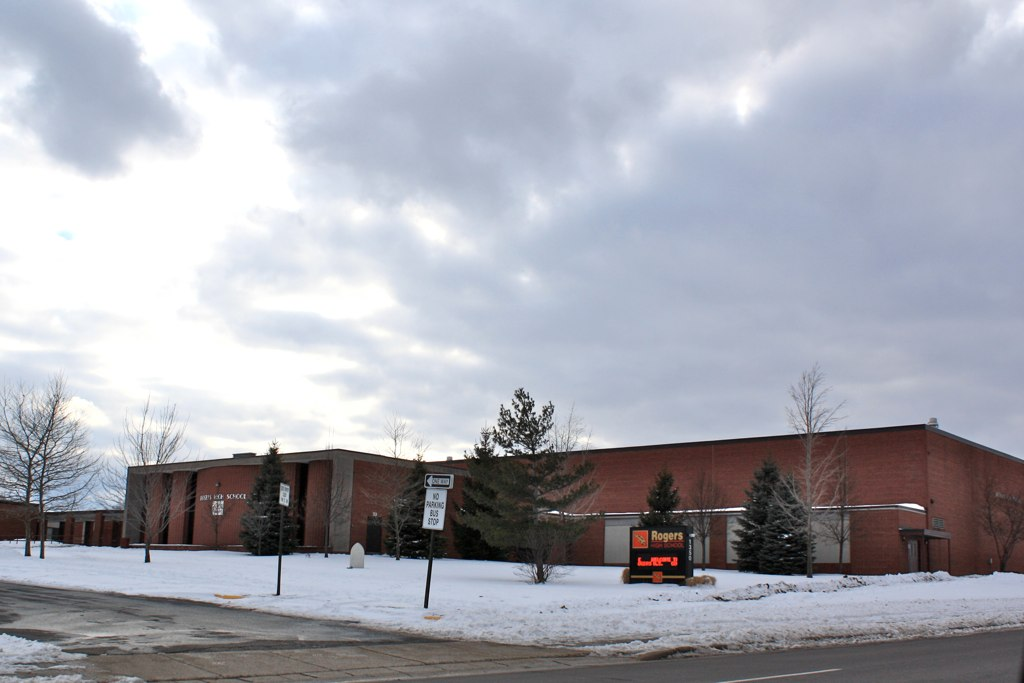 The High School Building